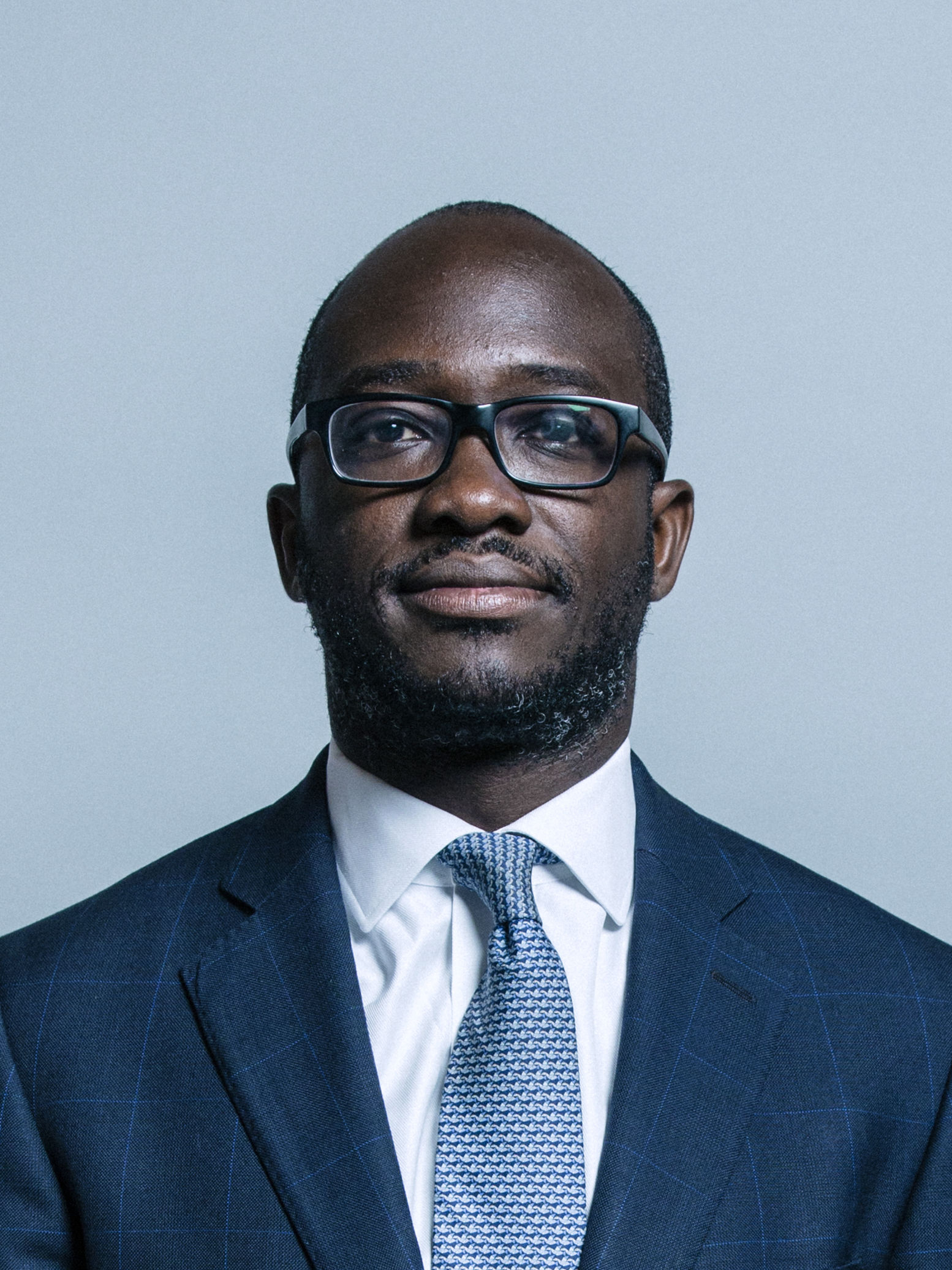 Official portrait of Mr Sam Gyimah